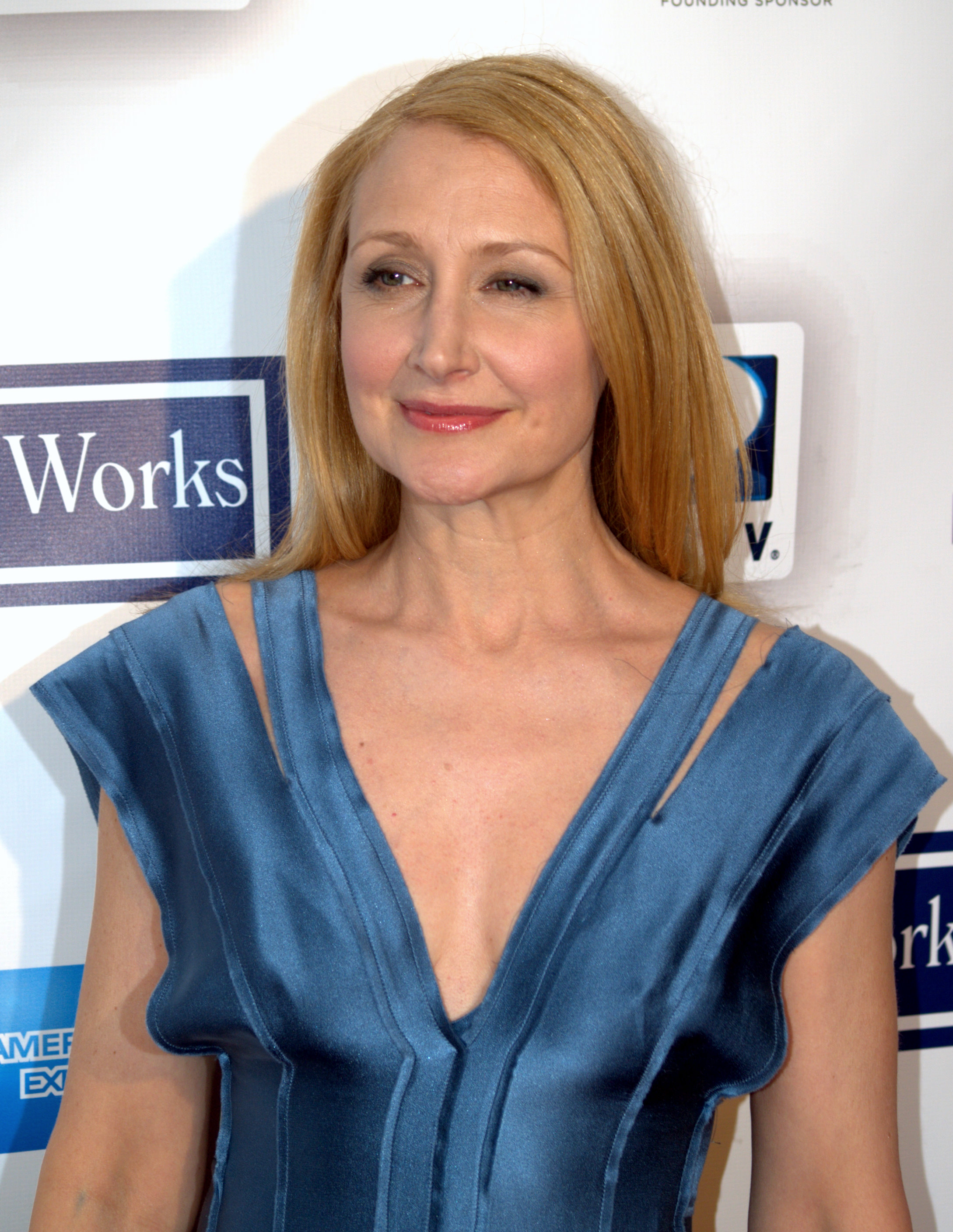 Patricia Clarkson at the 2009 Tribeca Film Festival premiere of Woody Allen's Whatever Works.